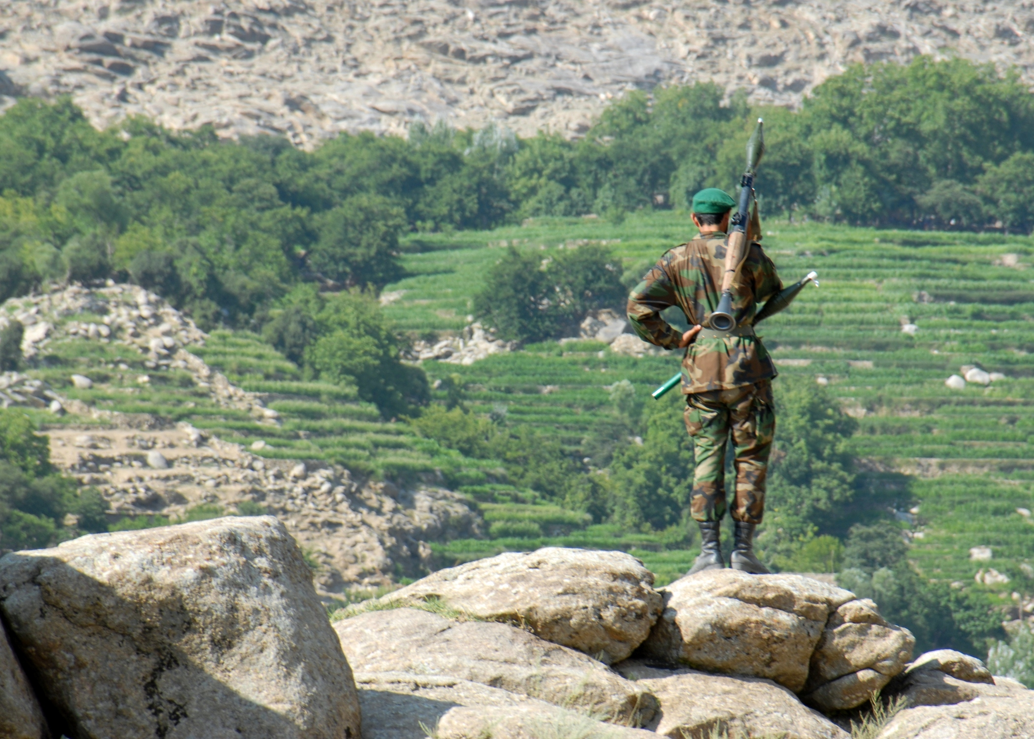 An Afghan national army soldier stands watch over the valley while Afghan national police move into a nearby village to search homes for weapons and Taliban insurgents during Operation Nowruz Jhala. Unit: NATO Training Mission Afghanistan